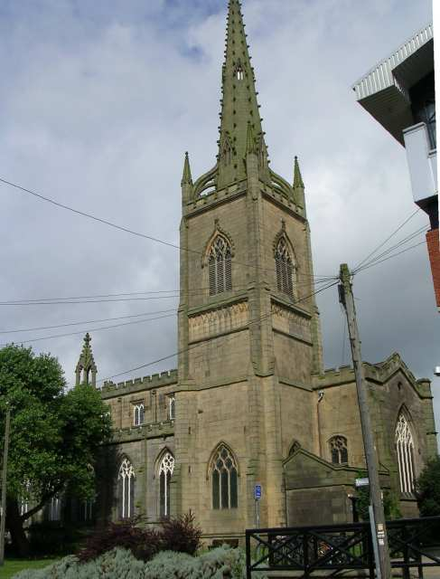 St Peter's Arts centre, St Peter's Square, Preston, Lancashire, England. Built in 1825 as St Peter's parish church. The tower and spire were added in 1852.